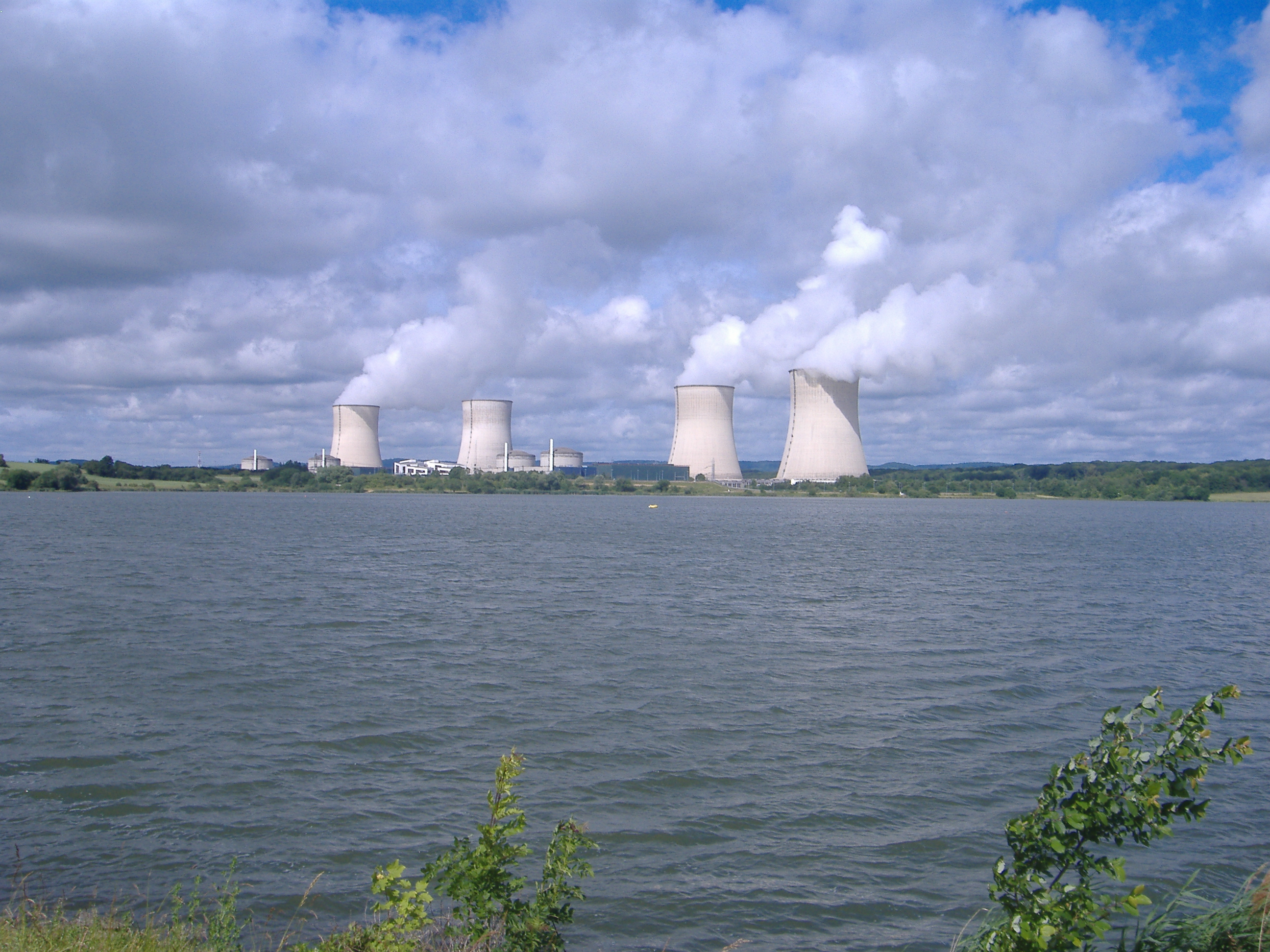 Nuclear Power Plant Cattenom and Cooling Lake "Lac du Mirgenbach"